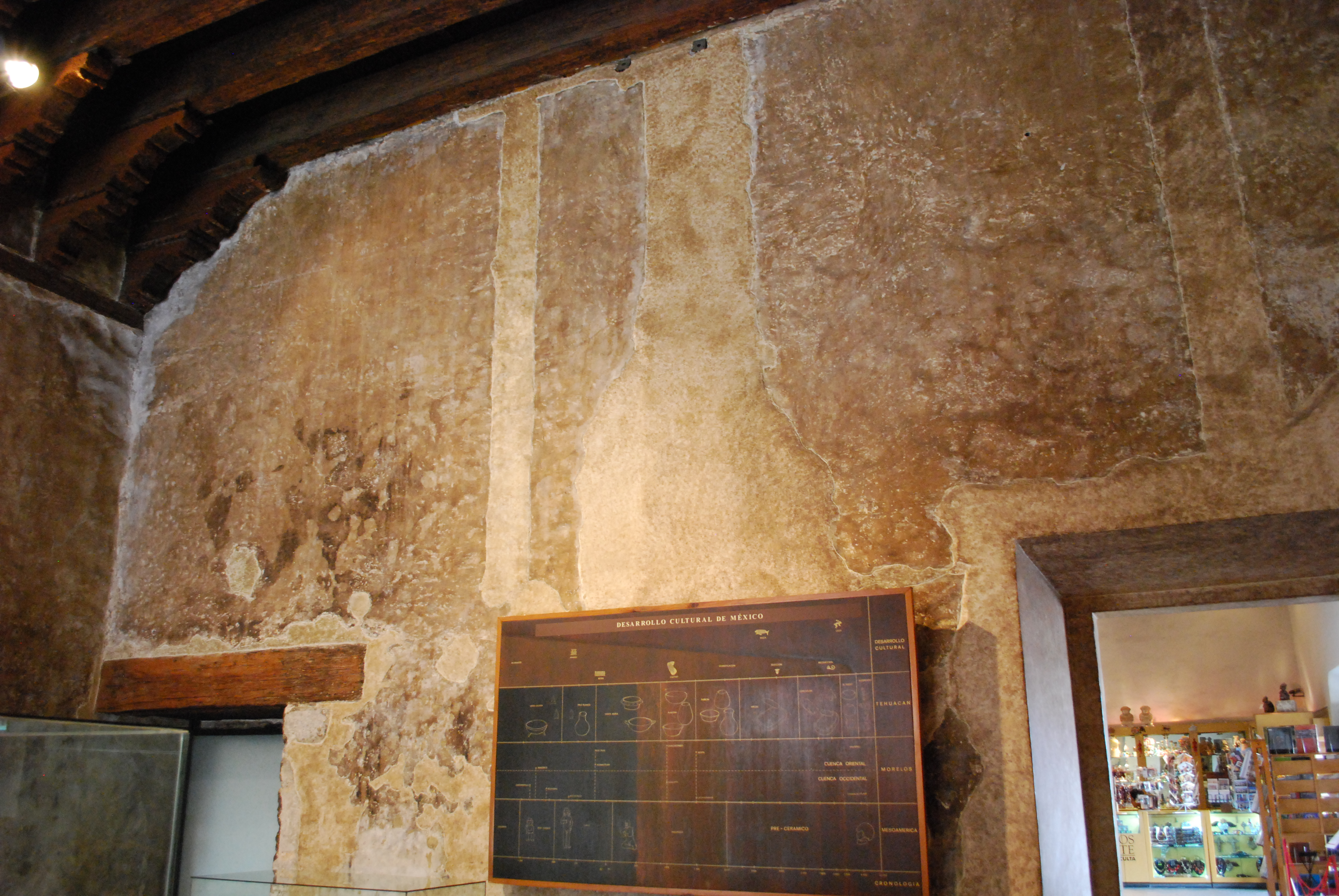 One of the interior walls of the Palace of Cortes, Cuernavaca, Mexico